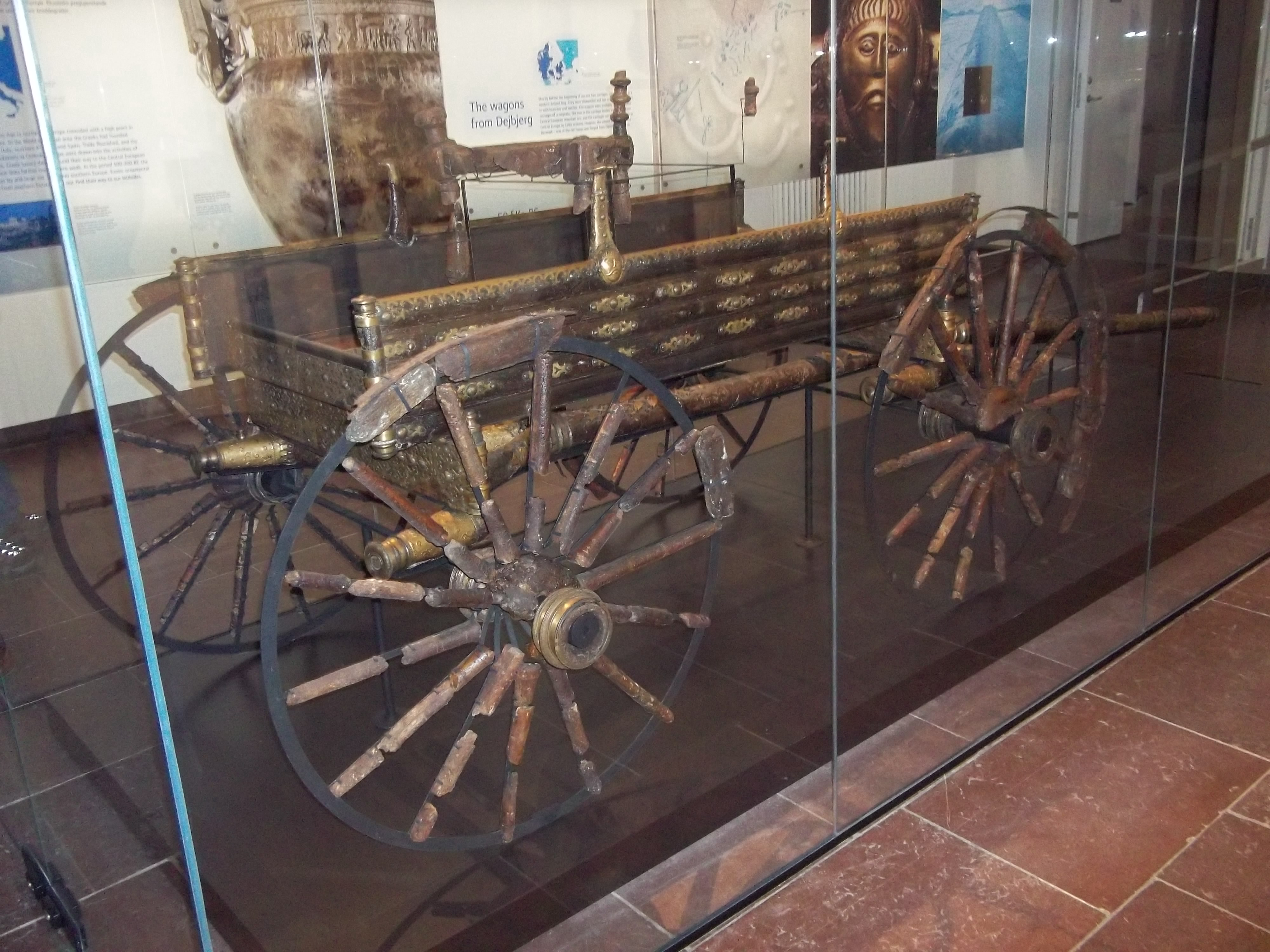 The Dejbjerg wagon, from Iron Age Denmark, in the Nationalmuseet (National Museum) in Copenhagen.